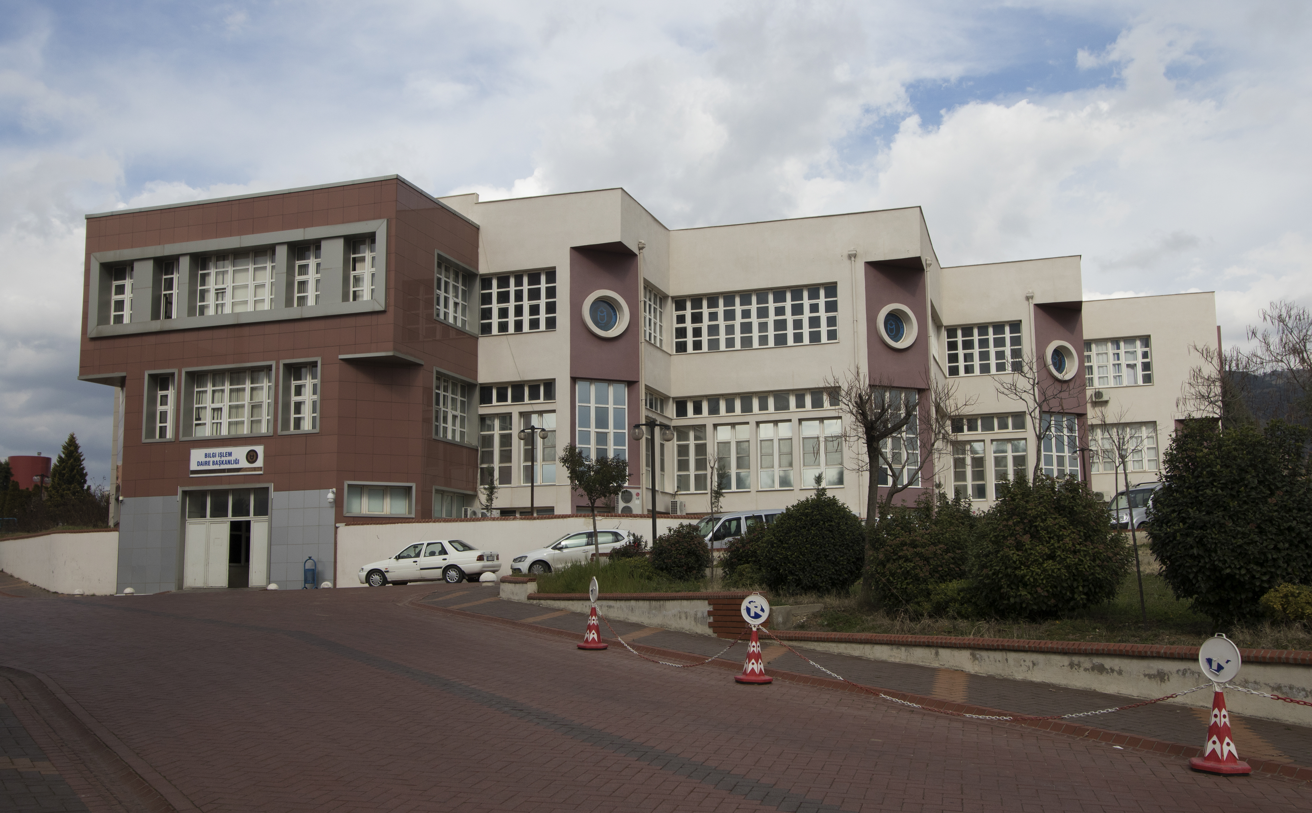 A southern view of the Central Library of Adnan Menderes University. Aydın - Turkey.